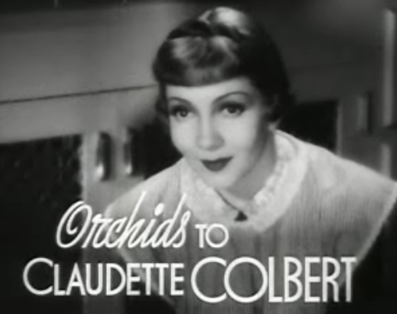 Cropped screenshot of Claudette Colbert from the trailer for the film Tovarich.